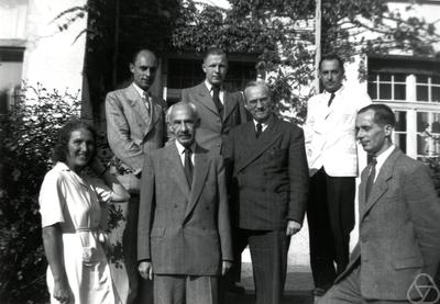 Occasion:Logician workshop autumn 1949 Oberwolfach — Annotation: from left: Irmgard Süss, Hans-Heinrich Ostmann, Paul Bernays, Gisbert Hasenjaeger, Arnold Schmidt, von Kaven, Schütte — Source: Univ. Archiv Freiburg, Depositalbestand E6